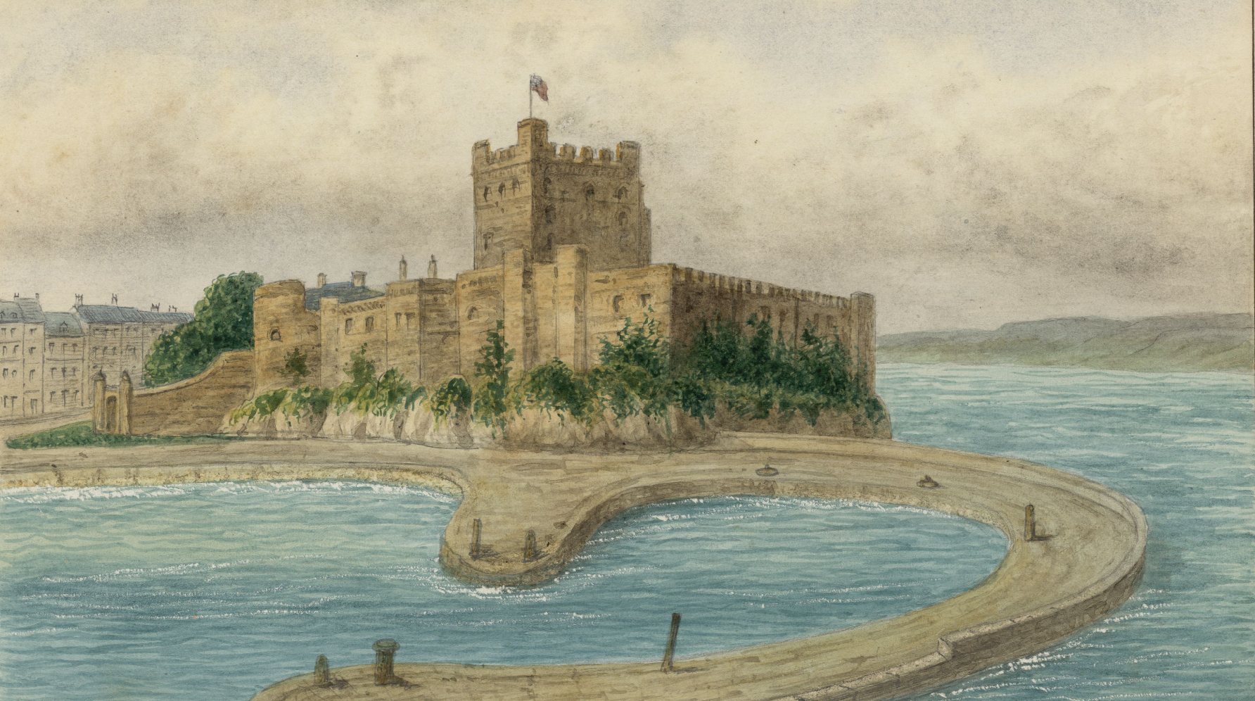 Numerous drawings and landscapes of villages, towns and landmarks in Wales and Ireland. By French artist Alphonse Dousseau.